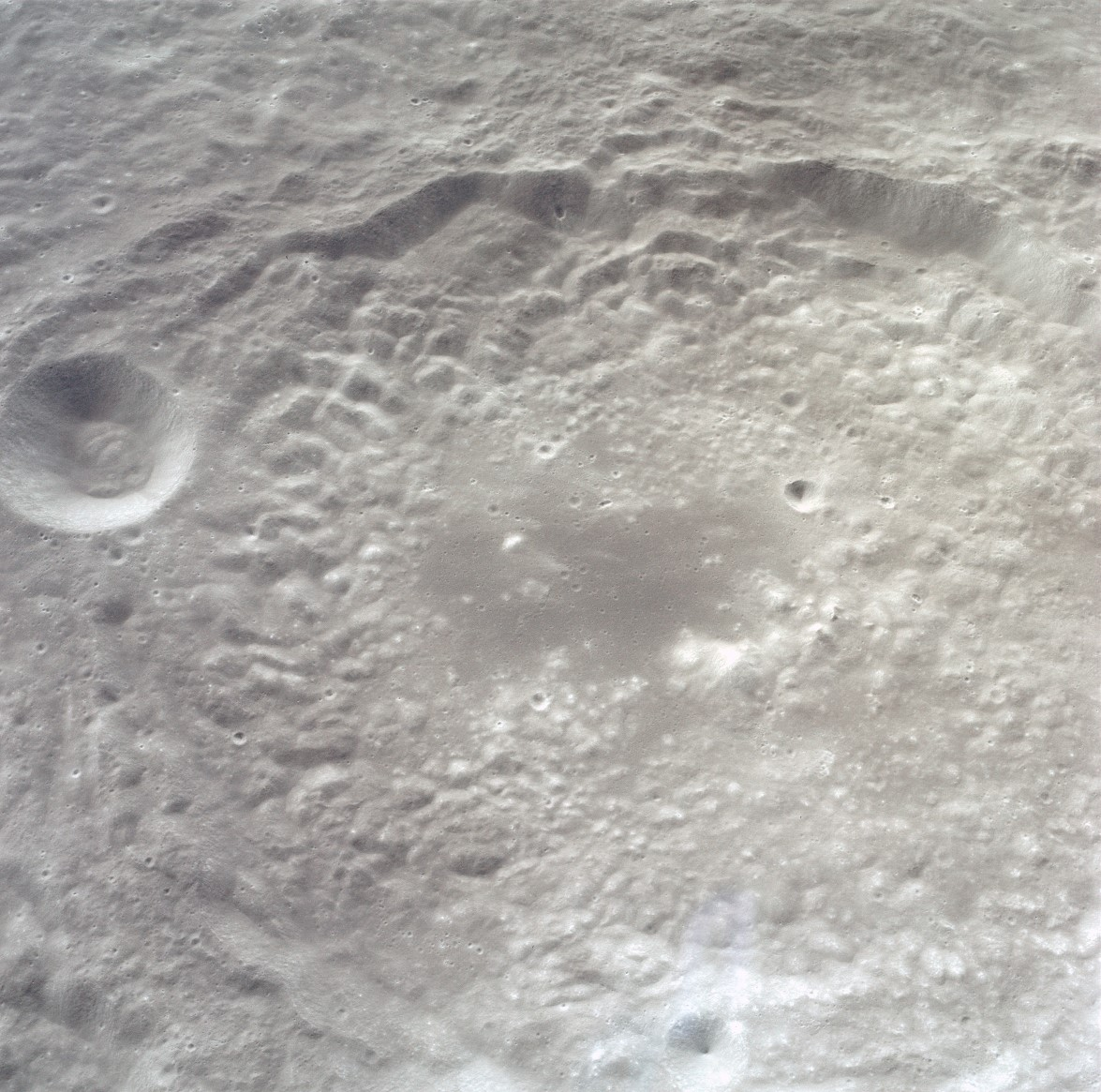 Oblique view of Langemak crater, on the far side of the moon, facing west. The smaller crater at left edge is Sherrington.